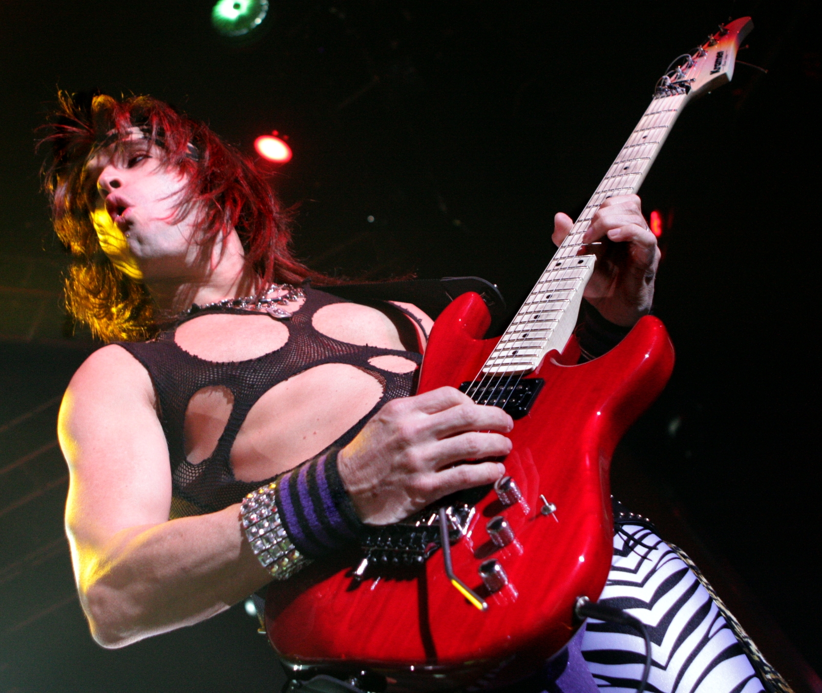 Russ Parrish performing with Steel Panther in Las Vegas.